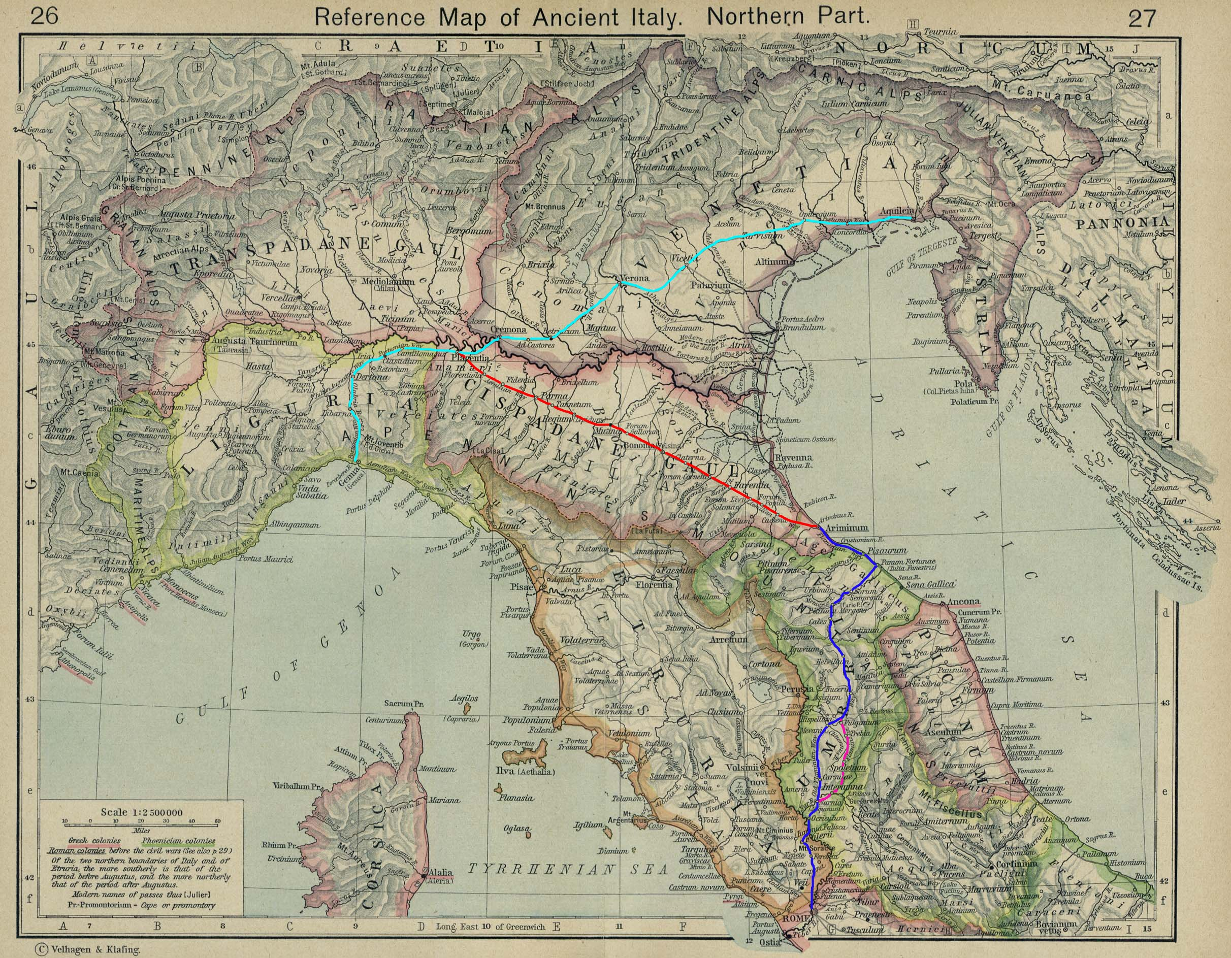 Ancient Rome Nord-East way system. Starting from Rome in blue color the Flamina way, following in red color the Aemilia way which links with the Postumia way ending in Aquileia